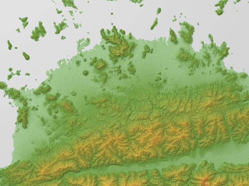 Sanuki Plain in Kagawa Prefecture, Shikoku, Japan.